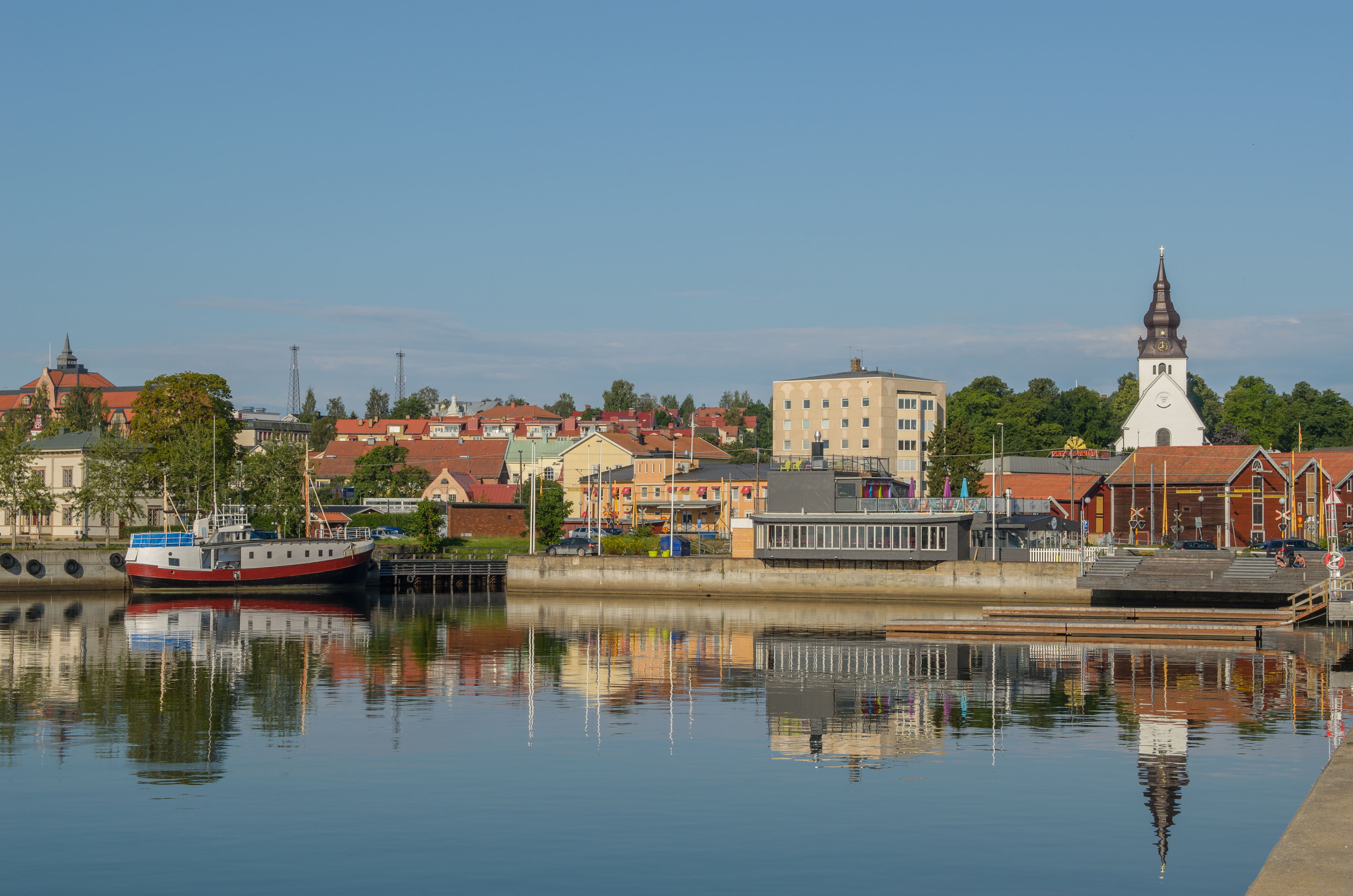 Hudiksvall habour. In the background, Hudiksvall kyrka (church). Hudiksvall, Sweden.